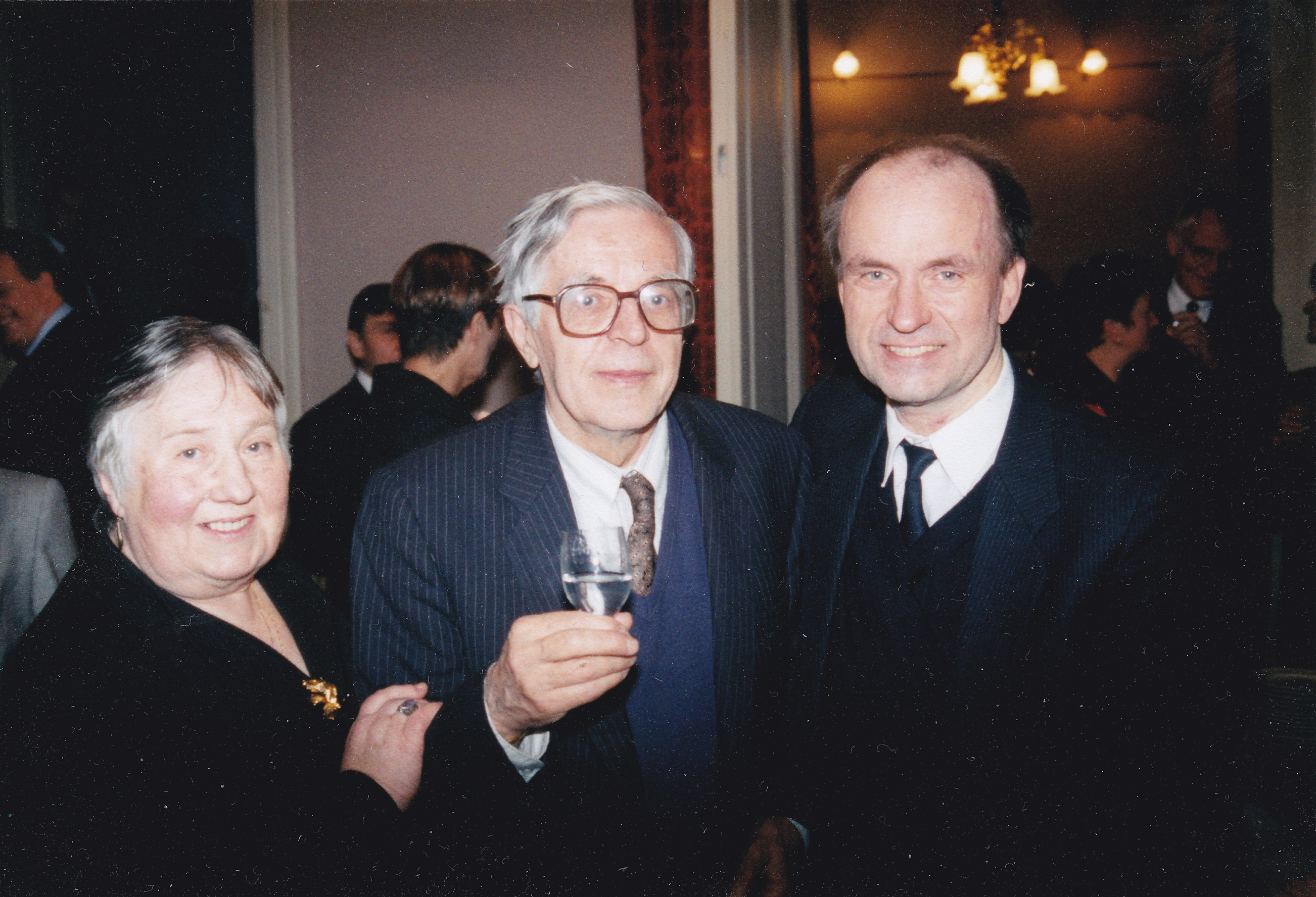 Andrej Hoteev after the recital in Moscow Conservatory - Great Hall with Lev Naumov and Irina Naumova 1996